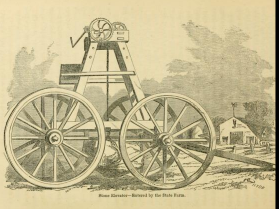 Used for picking up and hauling heavy rocks